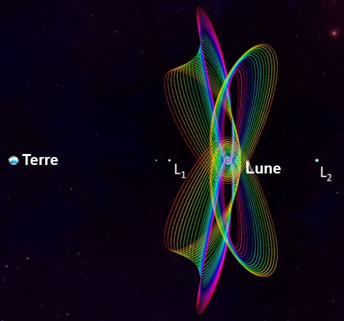 Lunar-L1-and-L2-northern-and-southern-NRHOs